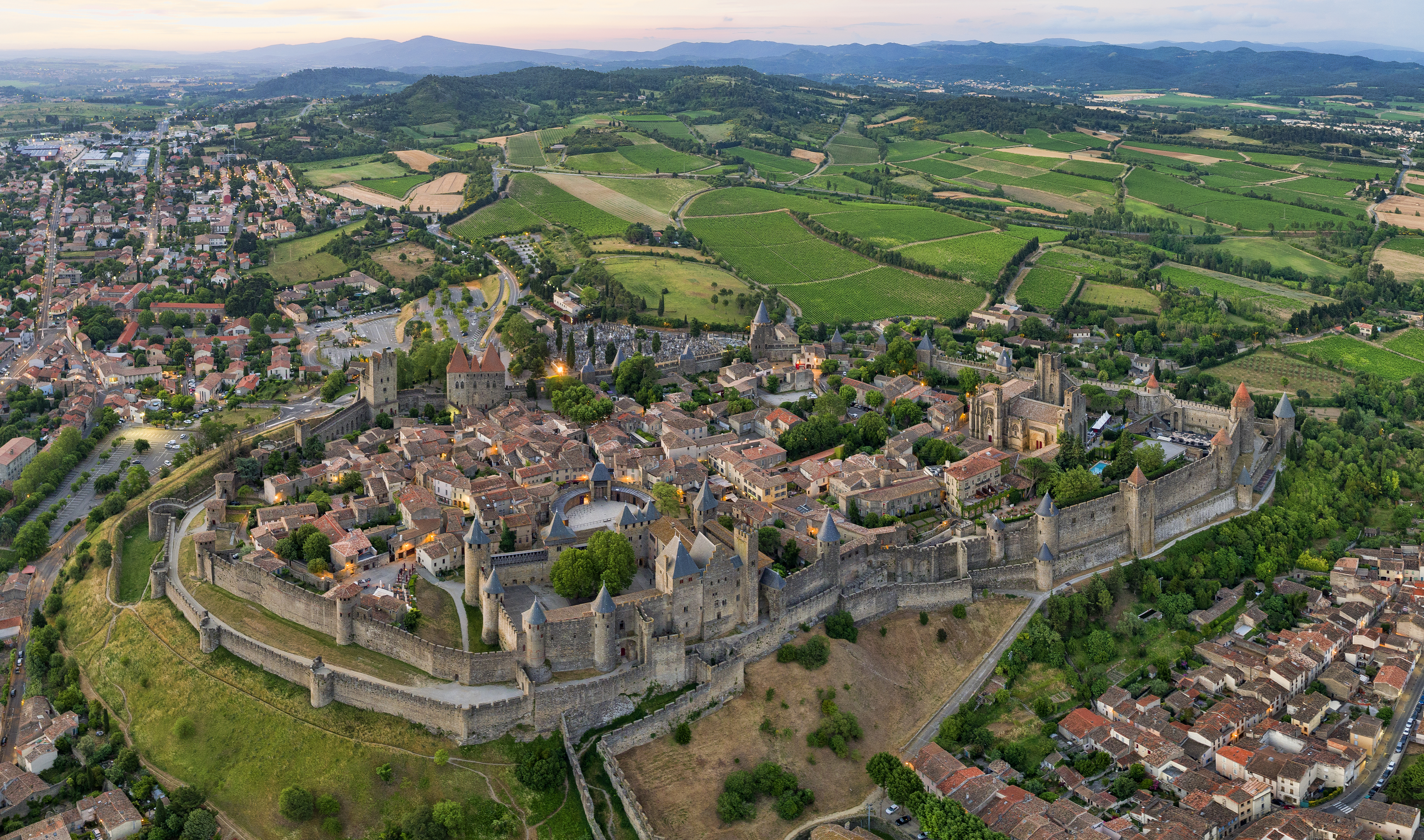 aerial panorama of Cité de Carcassonne